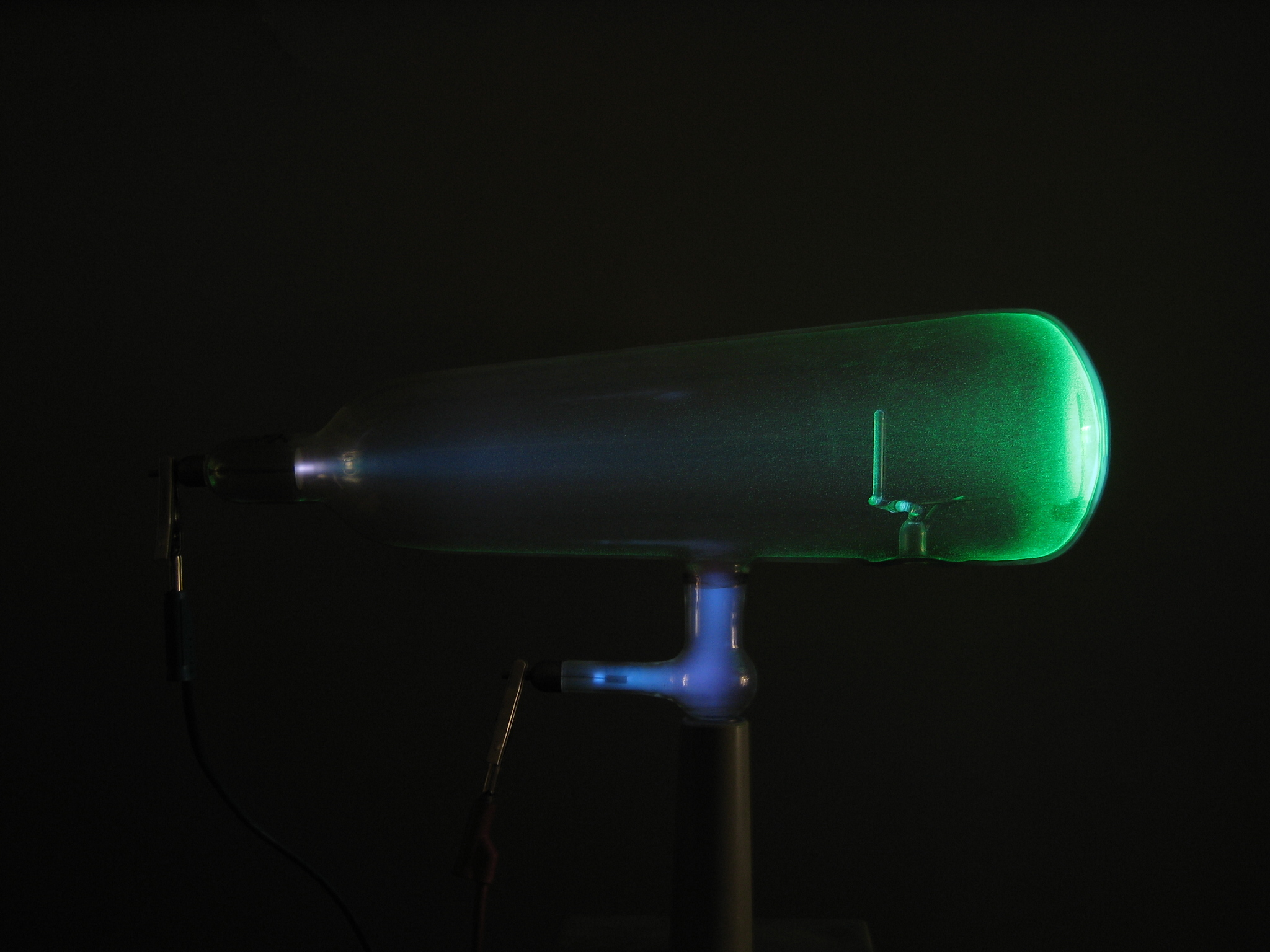 Lateral view of a sort of a Crookes tube described in the german Wikipedia (in use)